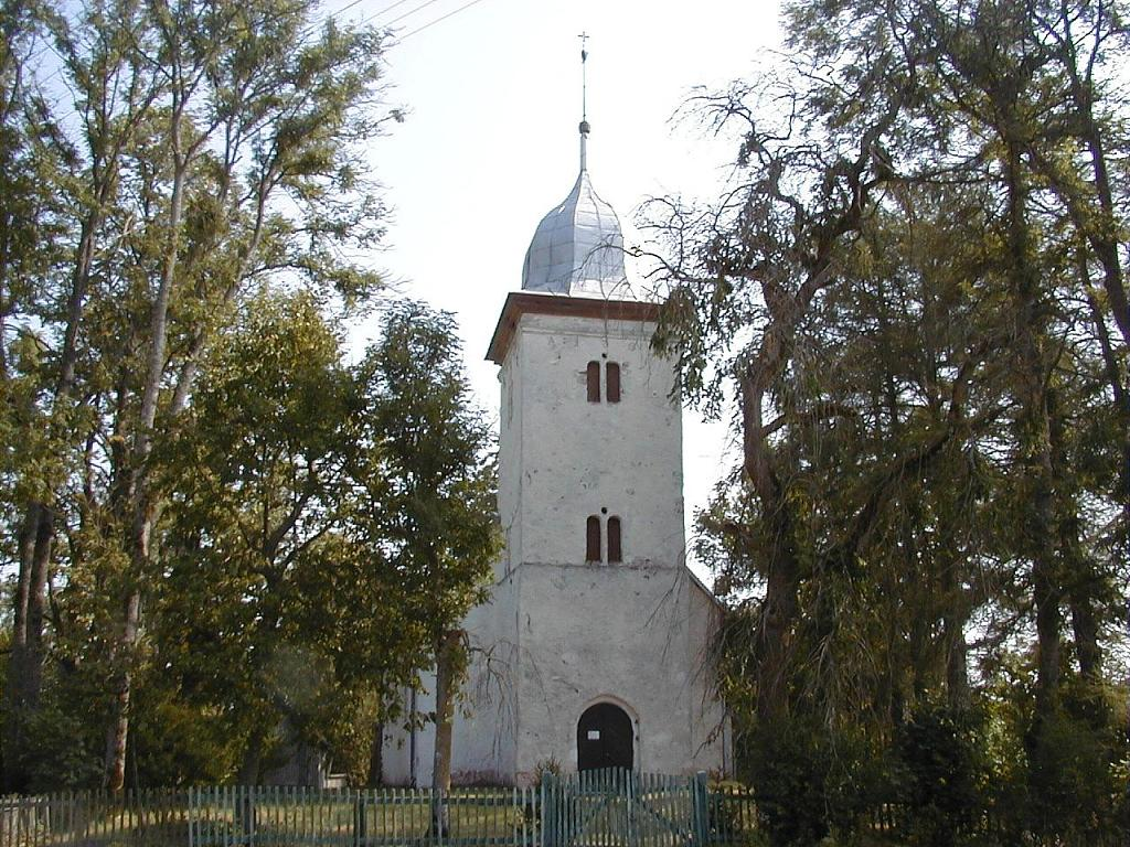 Church of Saint Lawrence in Vecpils. Built in 1644 and reconstructed in 1700.